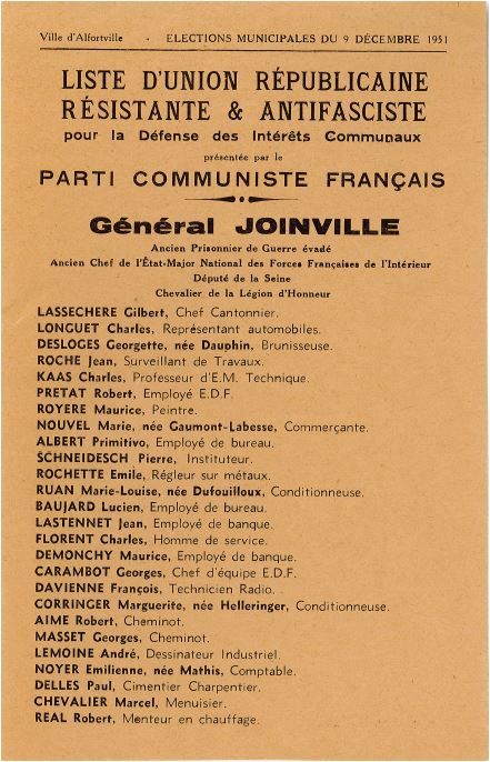 ballot for municipal elections of Alfortville in 1951